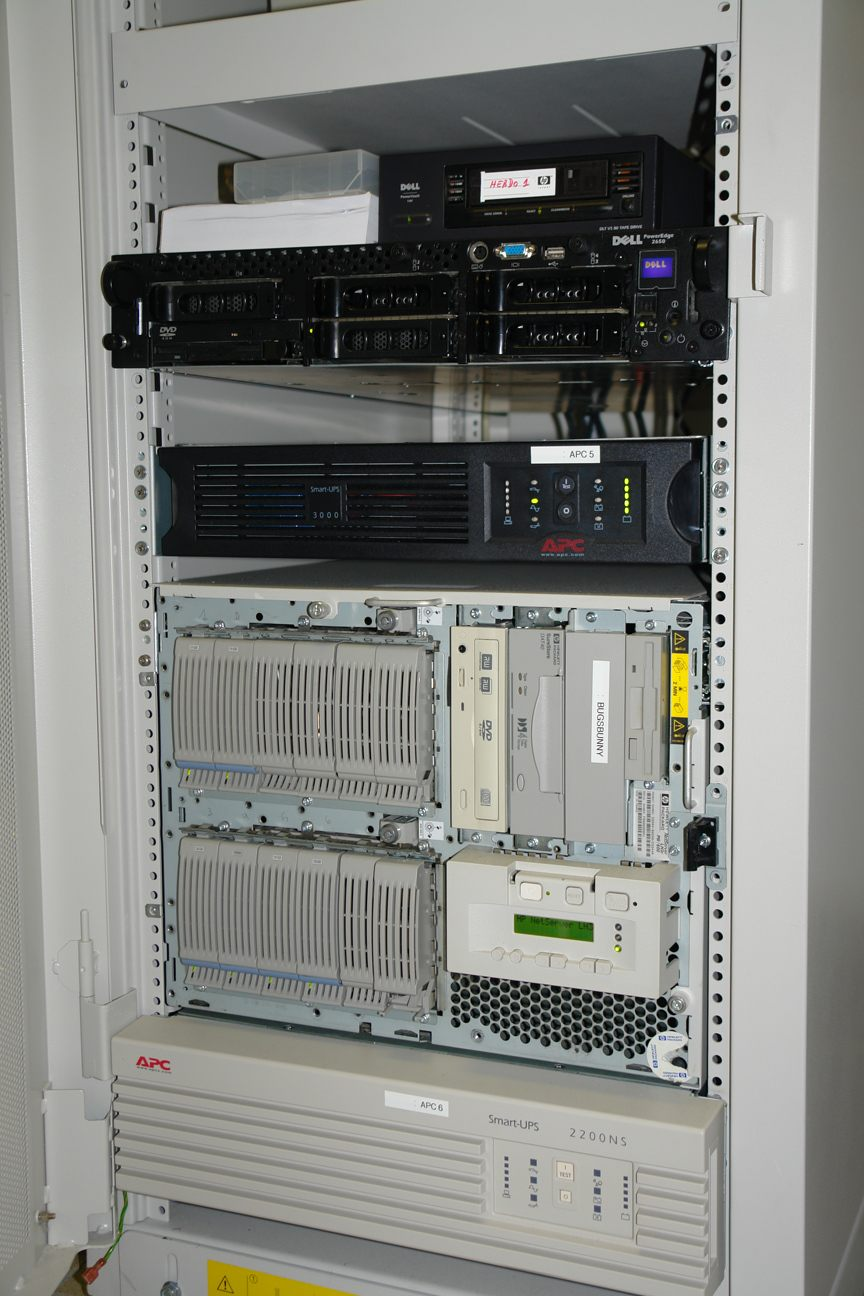 Computer rack with HP server and APC uninterruptible power supply (UPS).